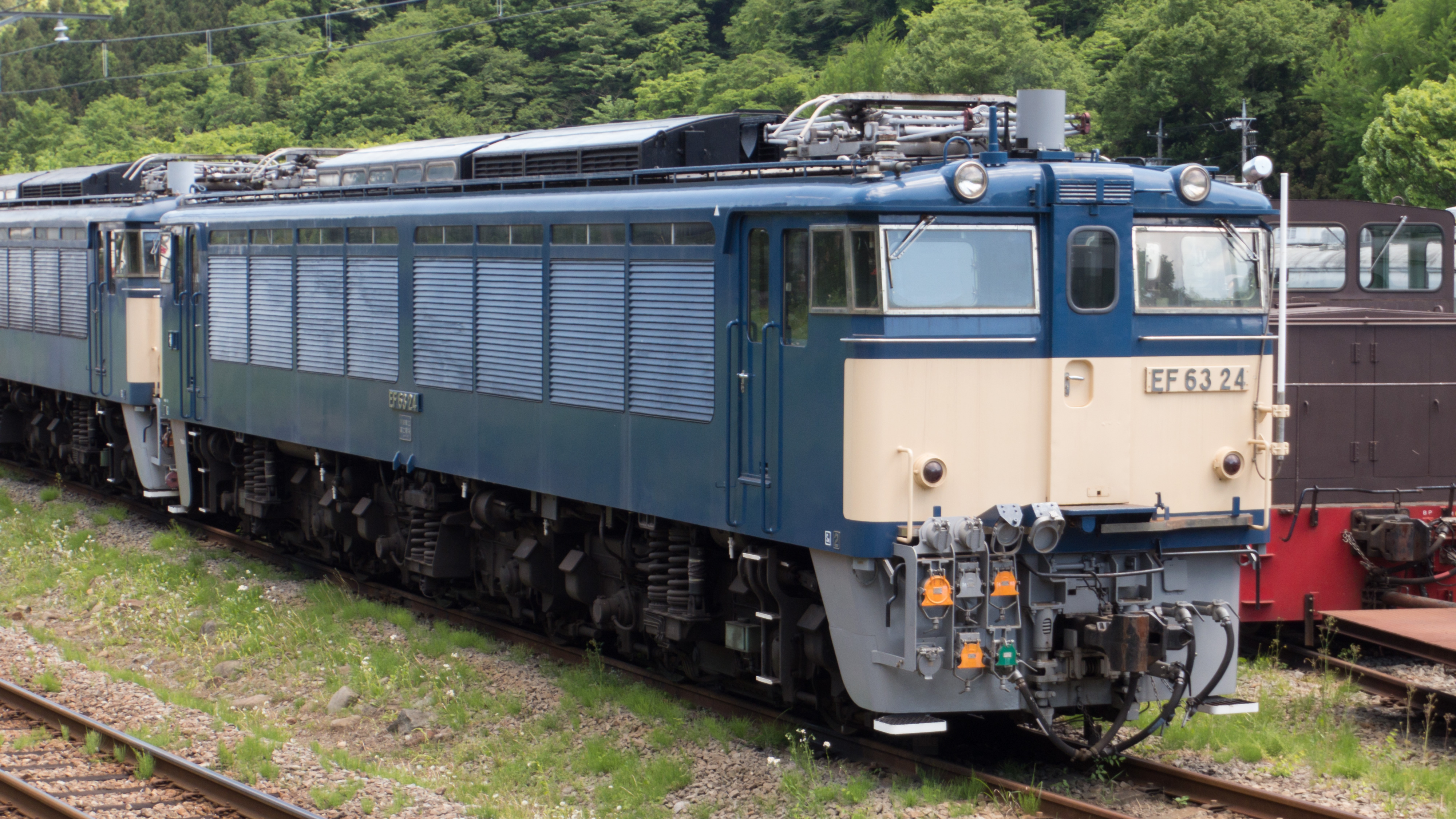 JNR Class EF63 electric locomotive EF63 24 operated at the Usui Pass Railway Heritage Park in Gunma Prefecture, Japan